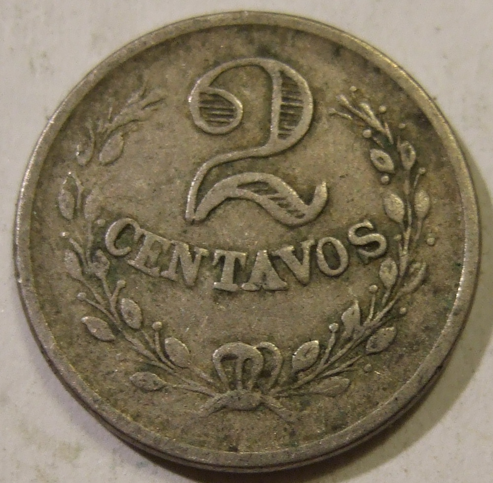 This Colombian coin was issued for use in a Leper colony in that country.